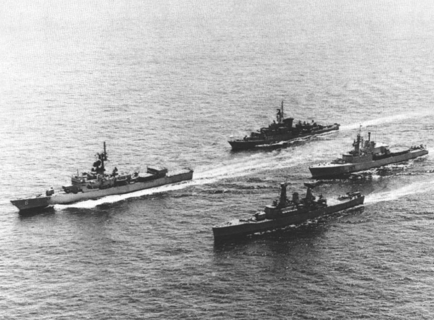 NATO Standing Naval Force Atlantic ships underway, in 1974 (l-r): USS Julius A. Furer (DEG-6), U.S. Navy; HMS Sirius (F40), Royal Navy; Augsburg (F222), West Germany; HMCS Annapolis (DDH 265), Royal Canadian Navy.